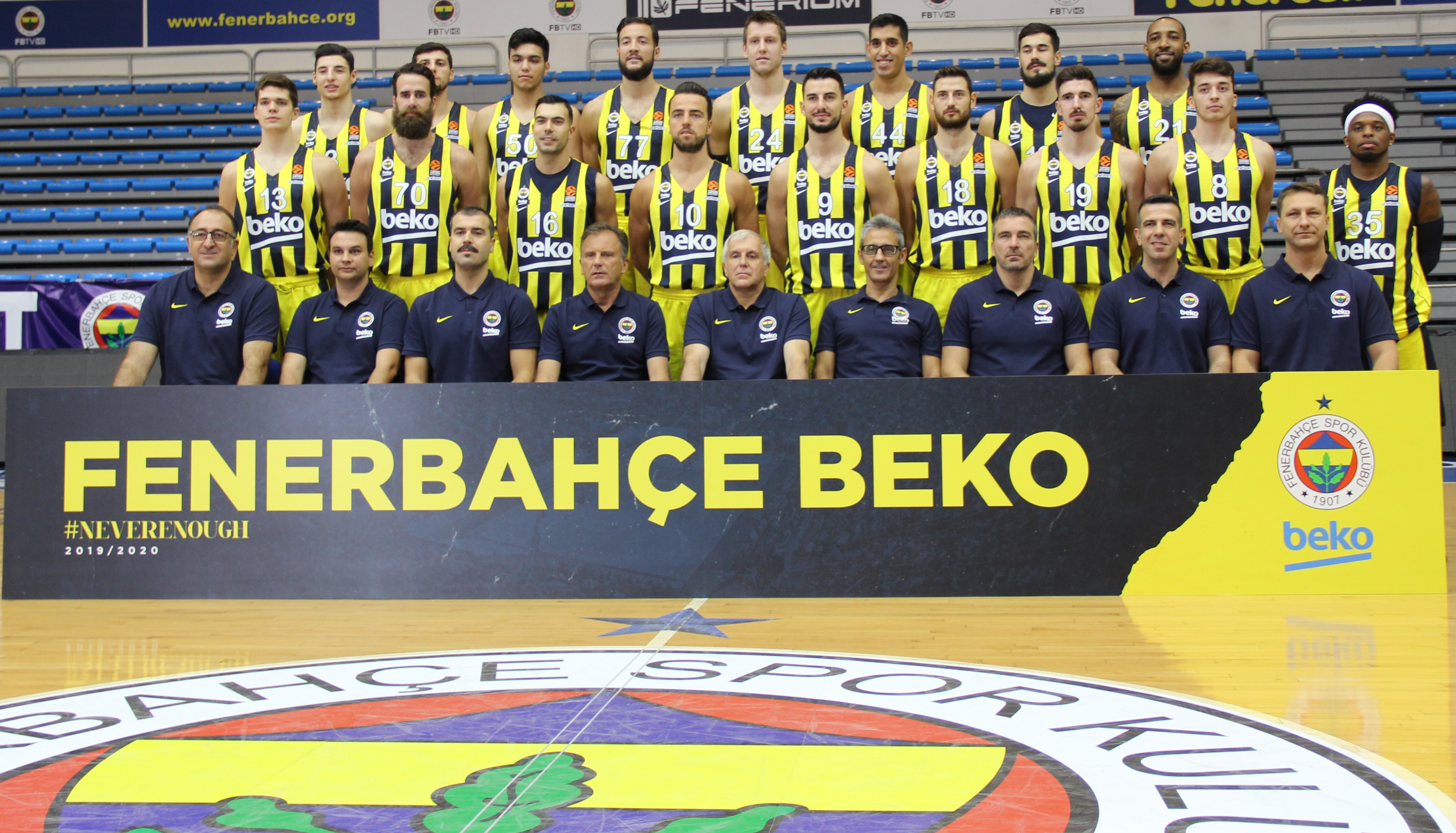 Fenerbahçe Basketball 2019-20 Team Roster Media Day 20190923